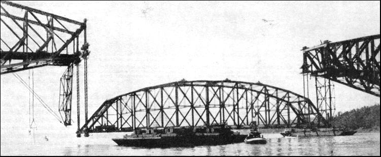 The great centre span of Quebec Bridge was built on shore, carried on barges to a position under the giant cantilevers, and then hoisted into place by a special arrangement of steel hangers.